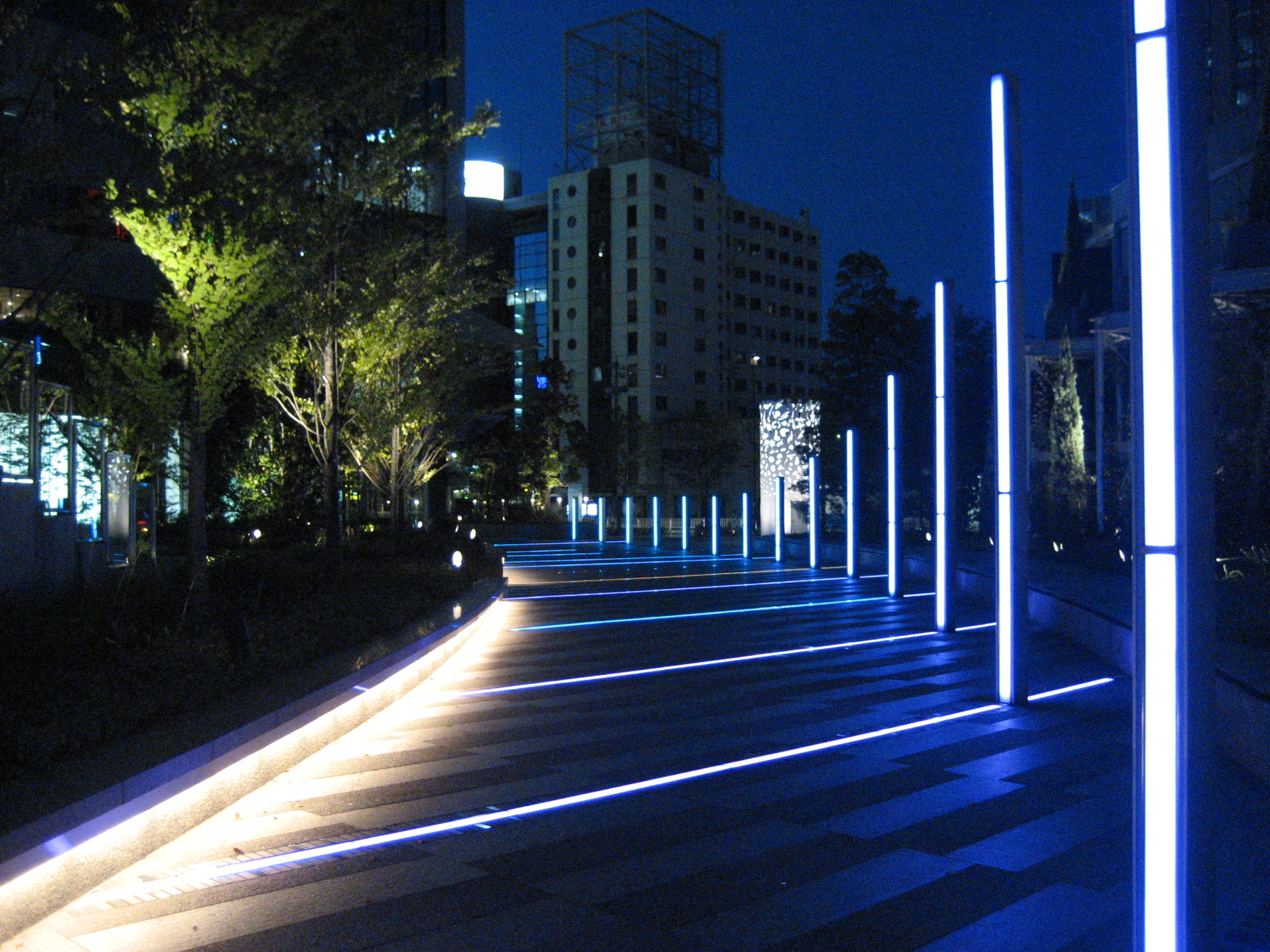 Foot of Lucent Tower